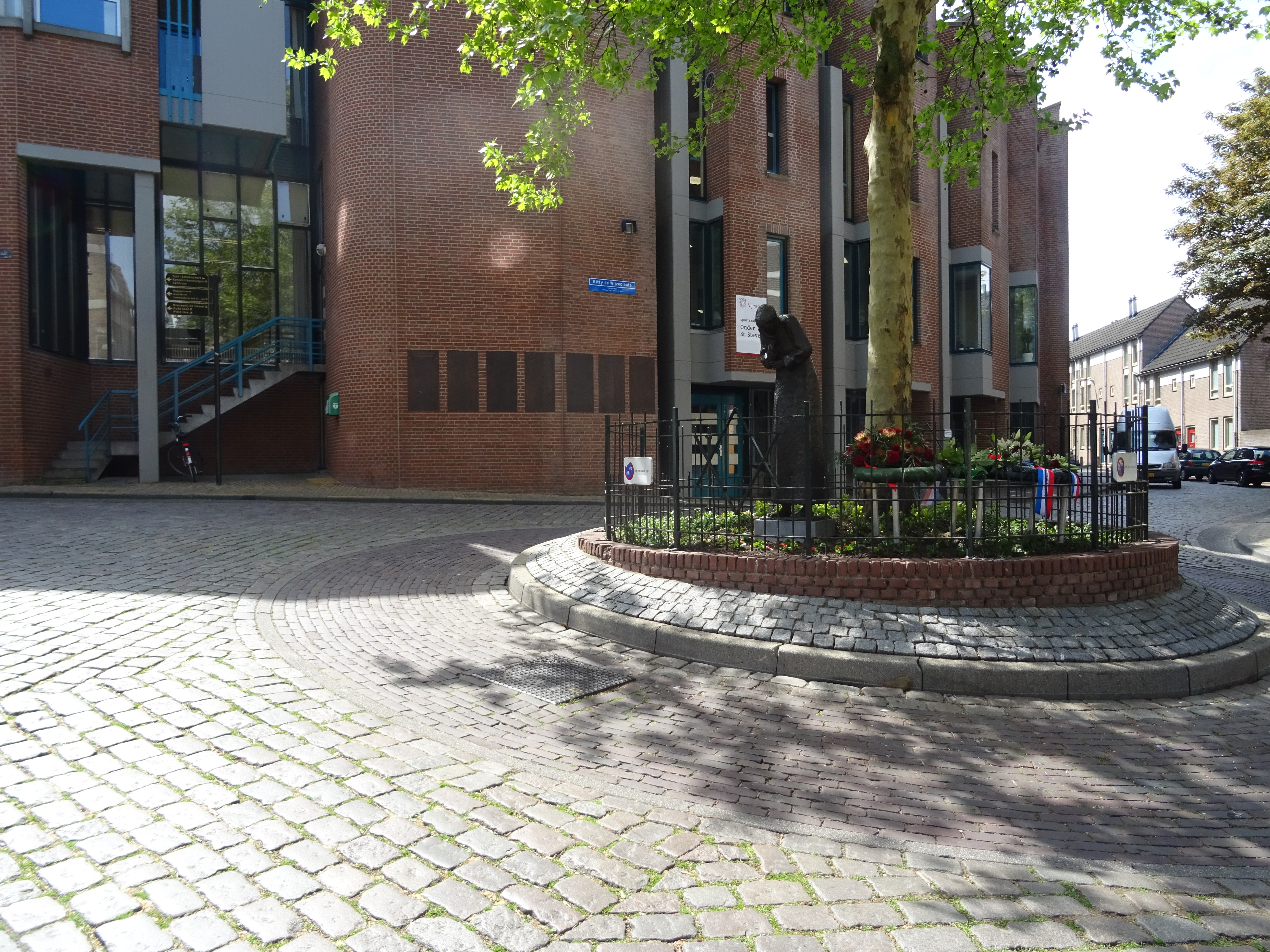 De Kitty de Wijze plaats met rechtsachter de zeven bronzen plakkaten op de muur. Foto genomen op 6 mei 2019.